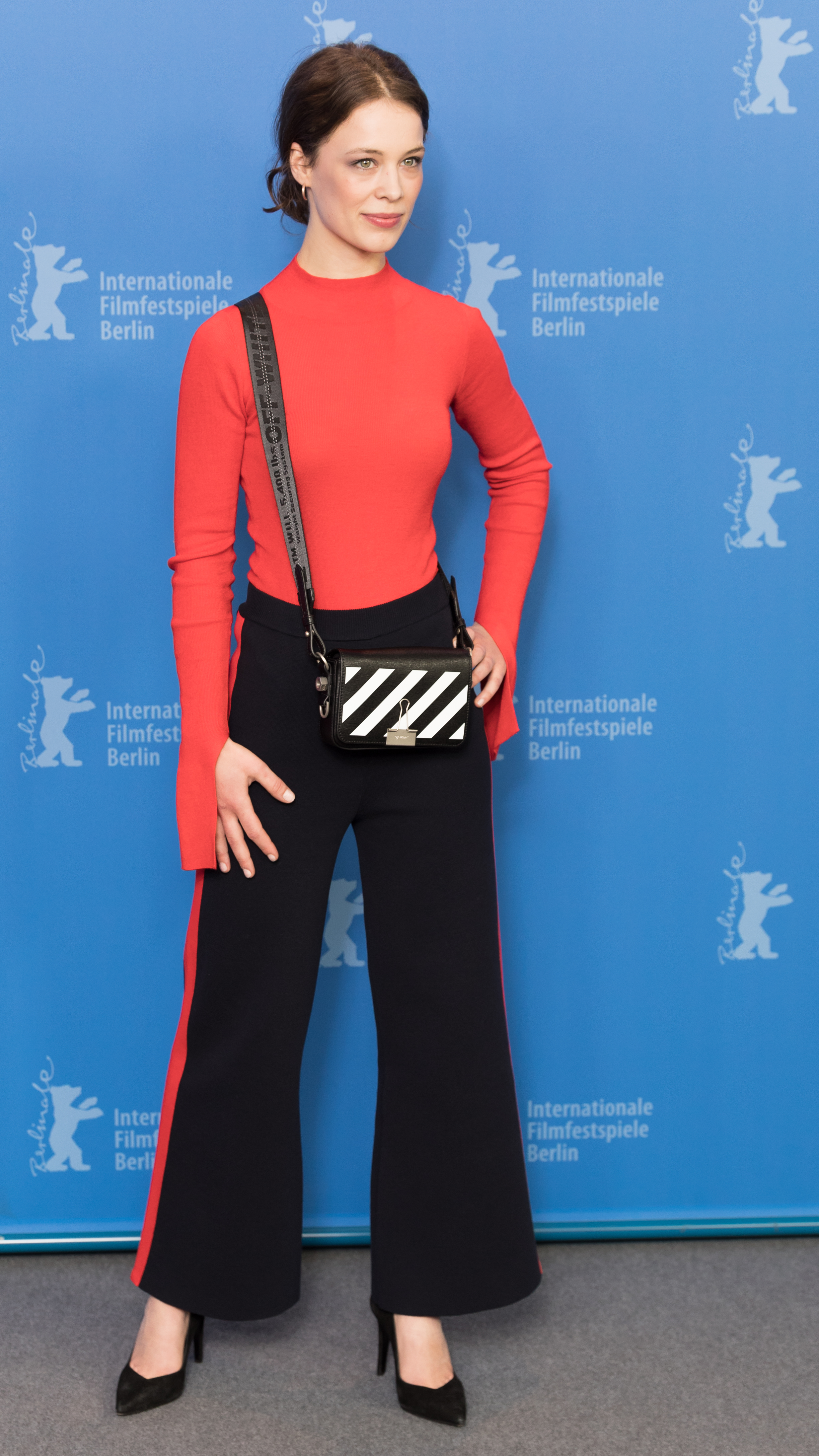 Paula Beer at the photo call for the movie "Transit" at the Berlinale 2018.